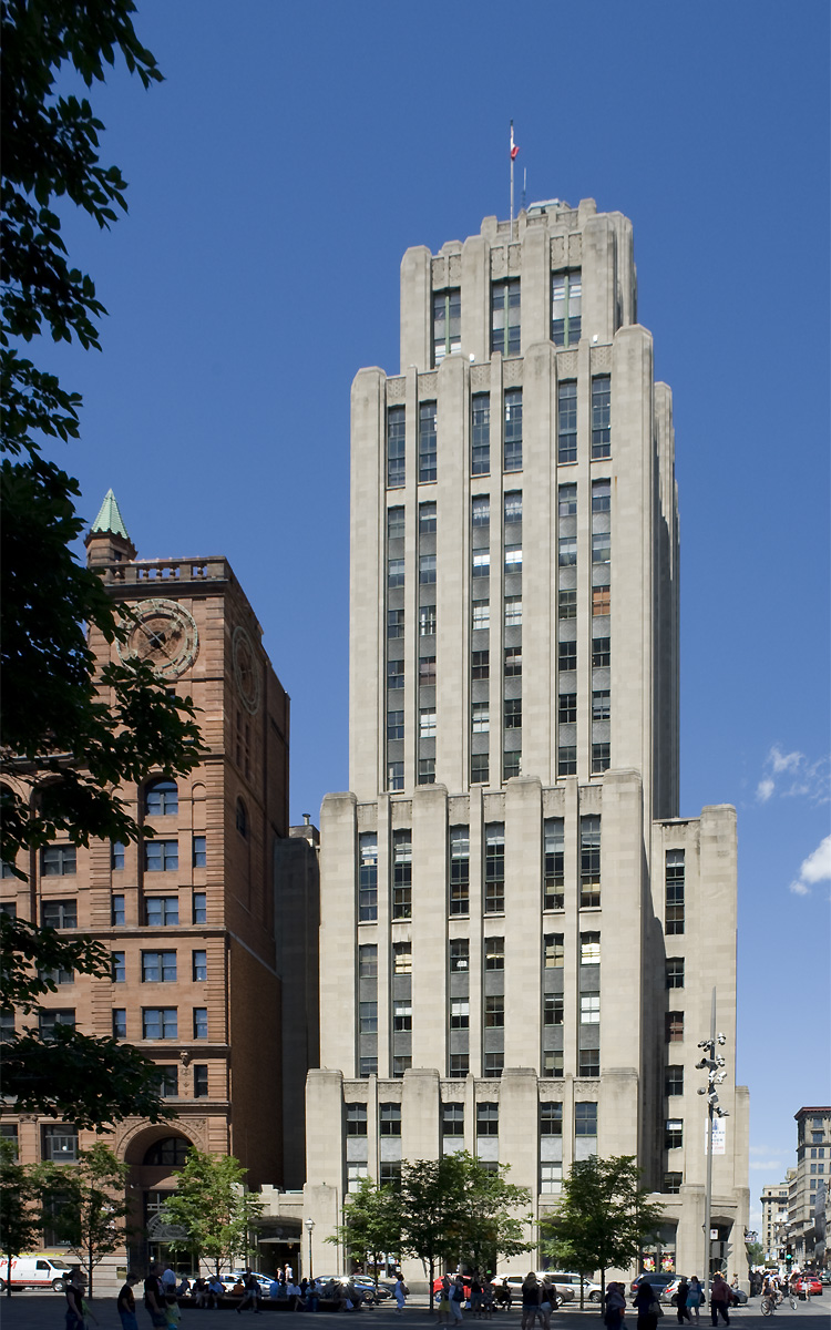 Aldred Building, on Place d’Armes, in Montréal (Québec)